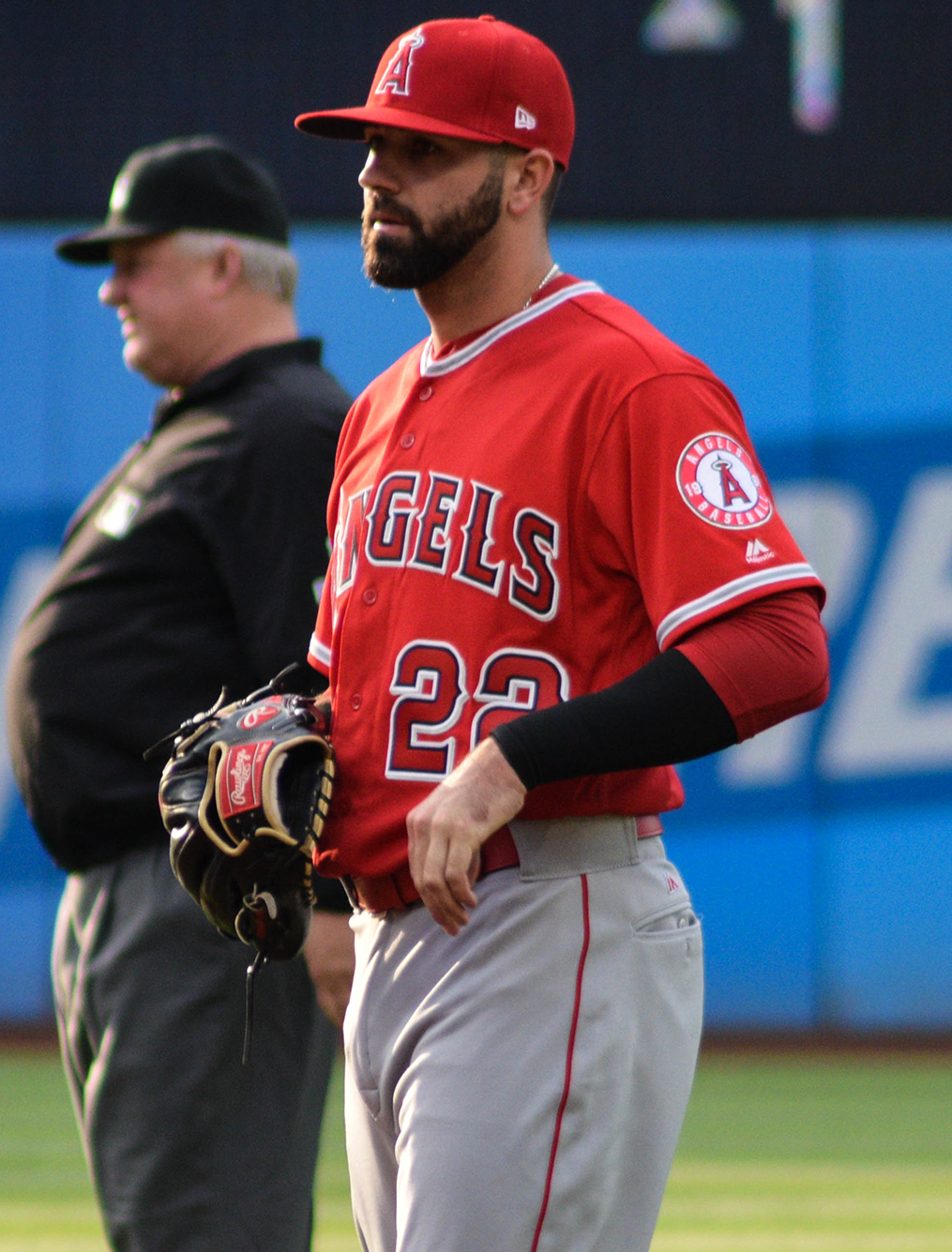 Angels Second Baseman Kaleb Cowart